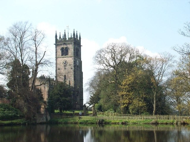 Gawsworth Church Gawsworth Church and pool near to Gawsworth Hall